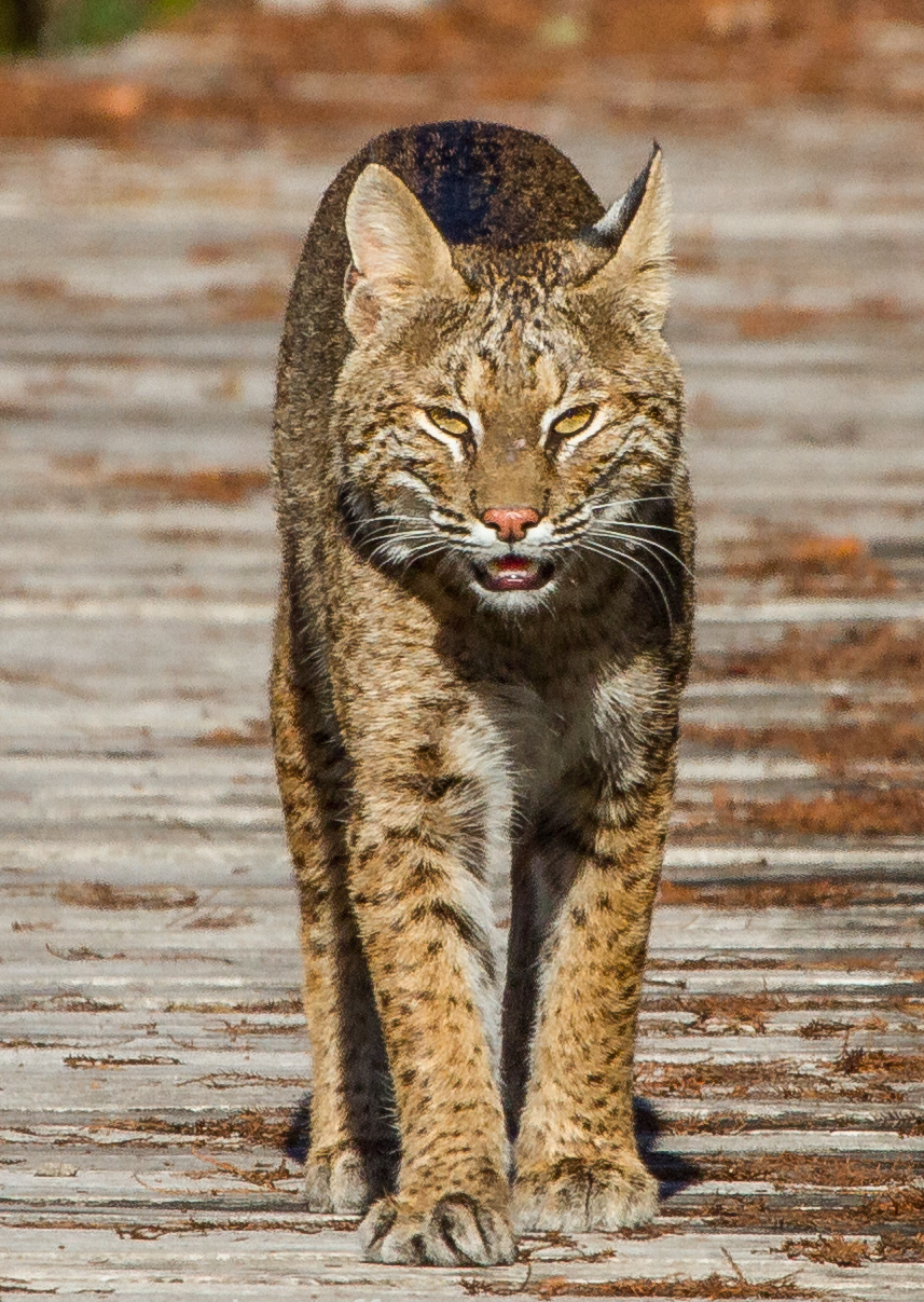 I went to Bird Rookery Swamp, near Naples, as the day was ending to see what birds were around. Along the boardwalk I met this bobcat. I backed up about 80 yards so it could get off easily.